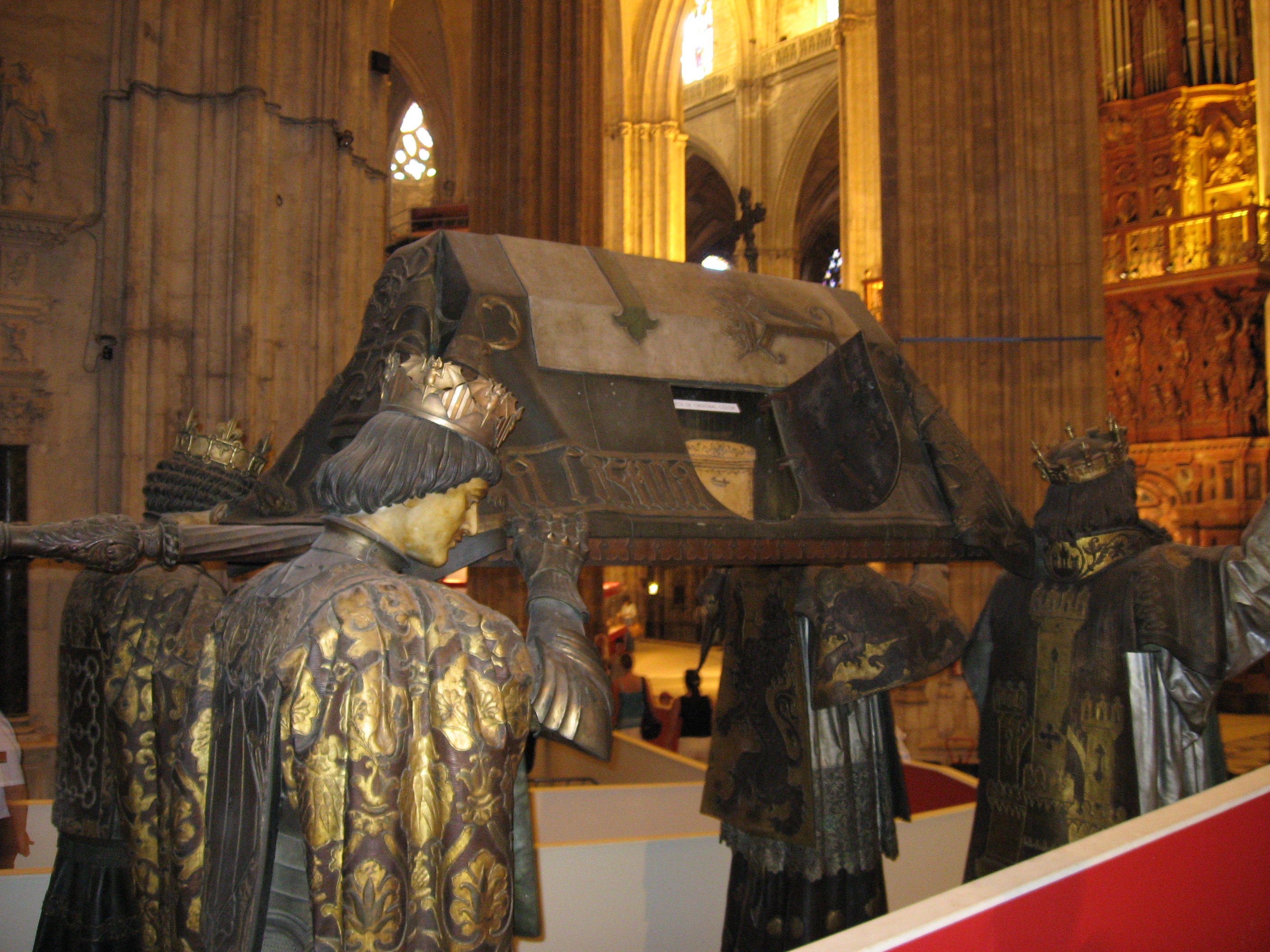 The tomb of Christopher Columbus, in the Sevilla Cathedral.